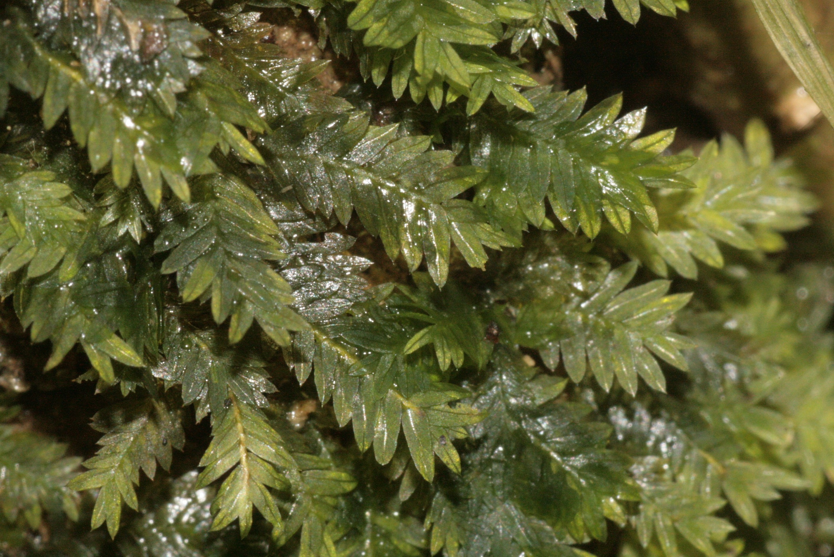 Fissidens taxifolius